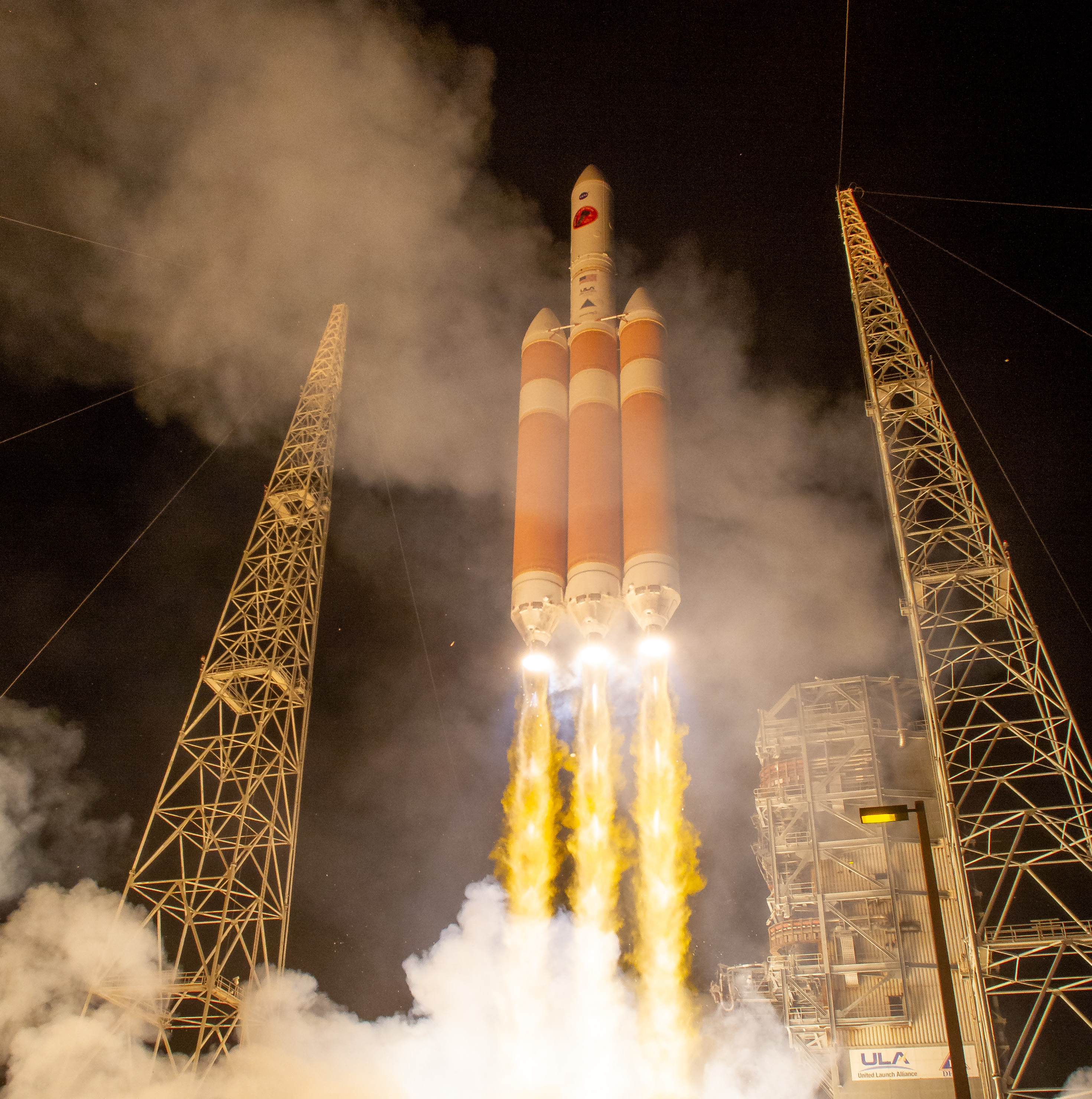 The United Launch Alliance Delta IV Heavy rocket launches NASA's Parker Solar Probe to touch the Sun, Sunday, Aug. 12, 2018 from Launch Complex 37 at Cape Canaveral Air Force Station, Florida. Parker Solar Probe is humanity’s first-ever mission into a part of the Sun’s atmosphere called the corona. Here it will directly explore solar processes that are key to understanding and forecasting space weather events that can impact life on Earth. Photo Credit: (NASA/Bill Ingalls)